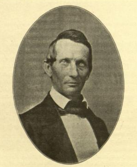 Portrait of Augustus Fendler probably taken in around the time he lived in Allentown Mo., ca. 1860